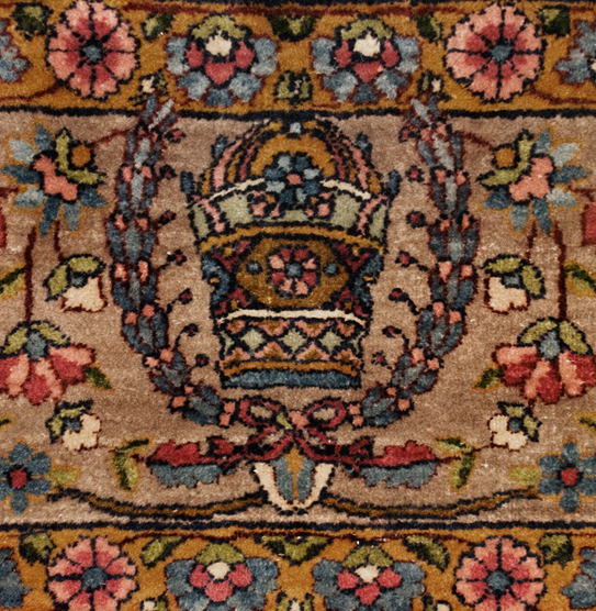 Mehdi Dilmaghani & Co. Inc Cyrus Crown